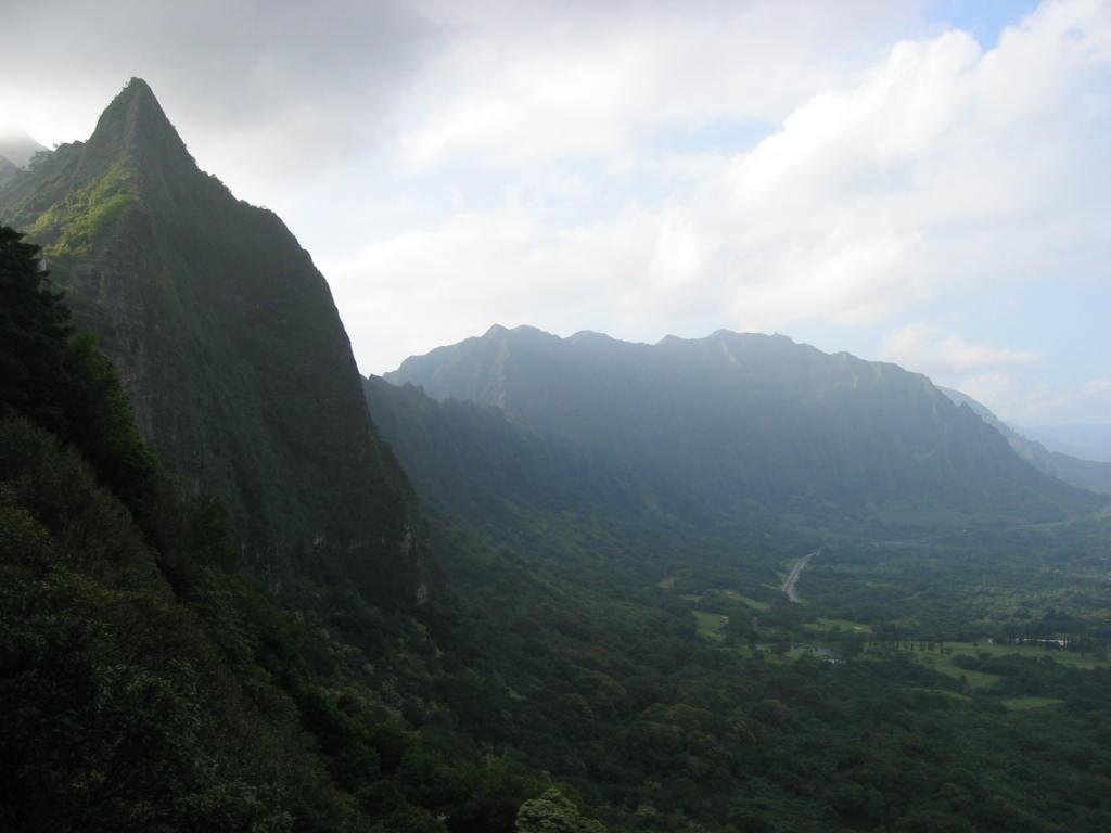 View from Pali Lookout in Oahu, Hawaii